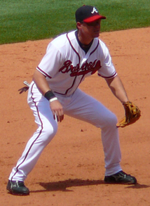 Picture I took on 5-10-07 23:20, 13 May 2007 . . Chrisjnelson . . 214×293 (102,515 bytes)